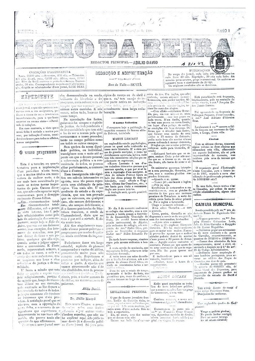 Cover of the newspaper Jornal da Certã (December 14, 1887)